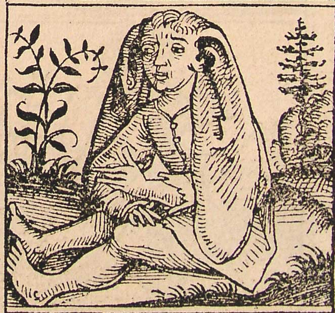 Panotti, Large ears, 1493 woodcut.